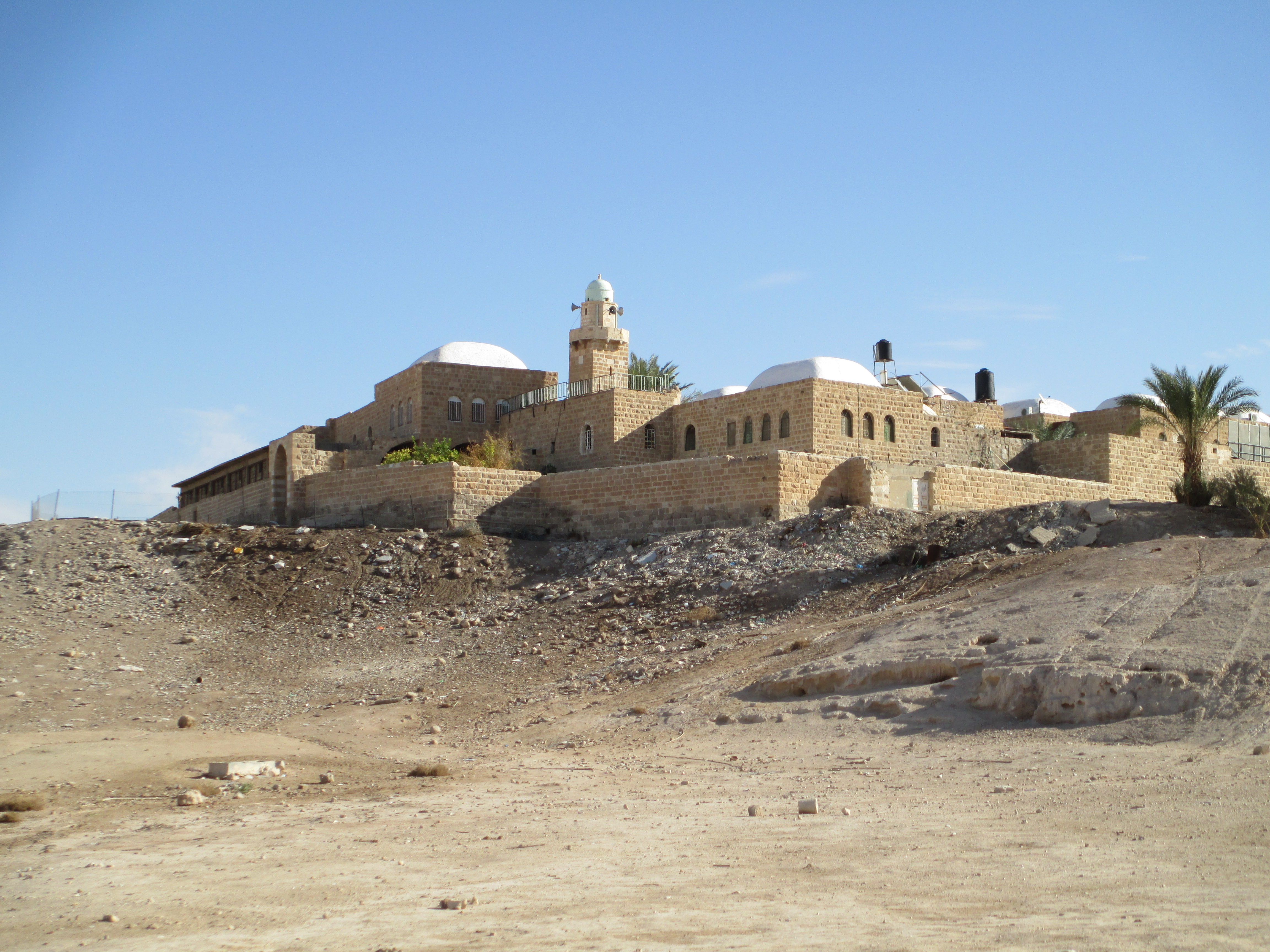 Nabi Musa